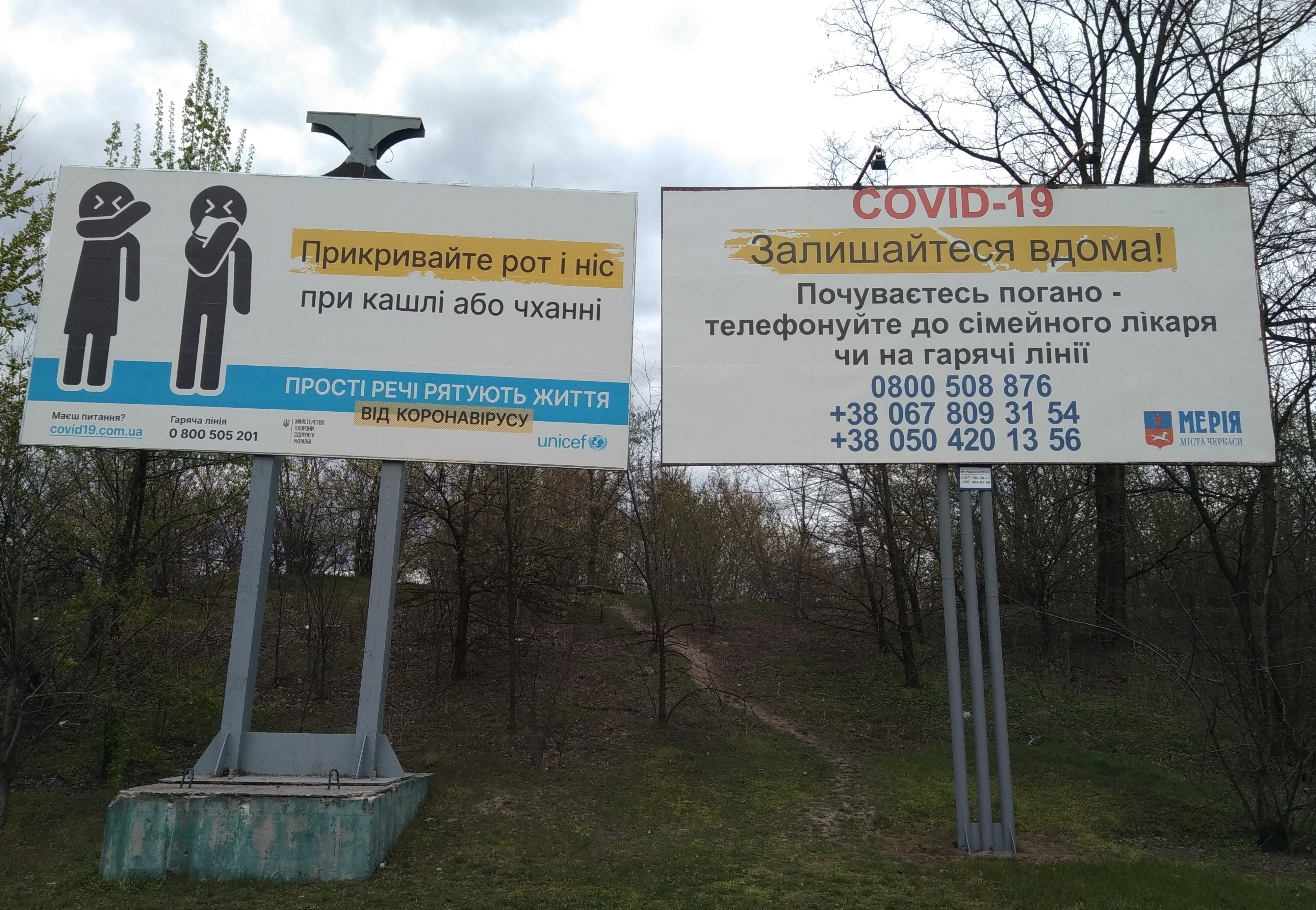 COVID-19 Billboard in Cherkasy (Ukraine)